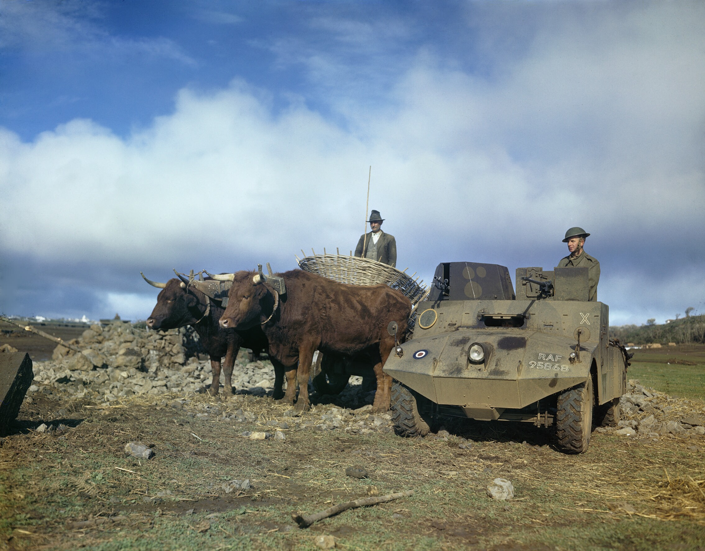 An RAF Morris LRC (light reconnaissance car) alongside a bullock cart on an airfield in the Azores, January 1944. Front view of a Royal Air Force Morris Light Armoured Car and a bullock cart on an airfield in the Azores.